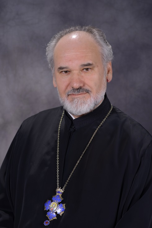 Aco Girevski at age 60